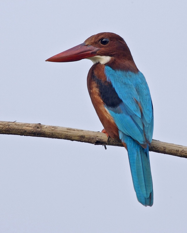 White-throated Kingfisher Halcyon smyrnensis perpulchra November 5, 2006 Reclaimed land, Changi, Singapore Alt. name : White-breasted Kingfisher Check the front view to justify the name "White-breasted" or "White-throated" Indonesian: Cekakak belukar, Raja udang leher putih